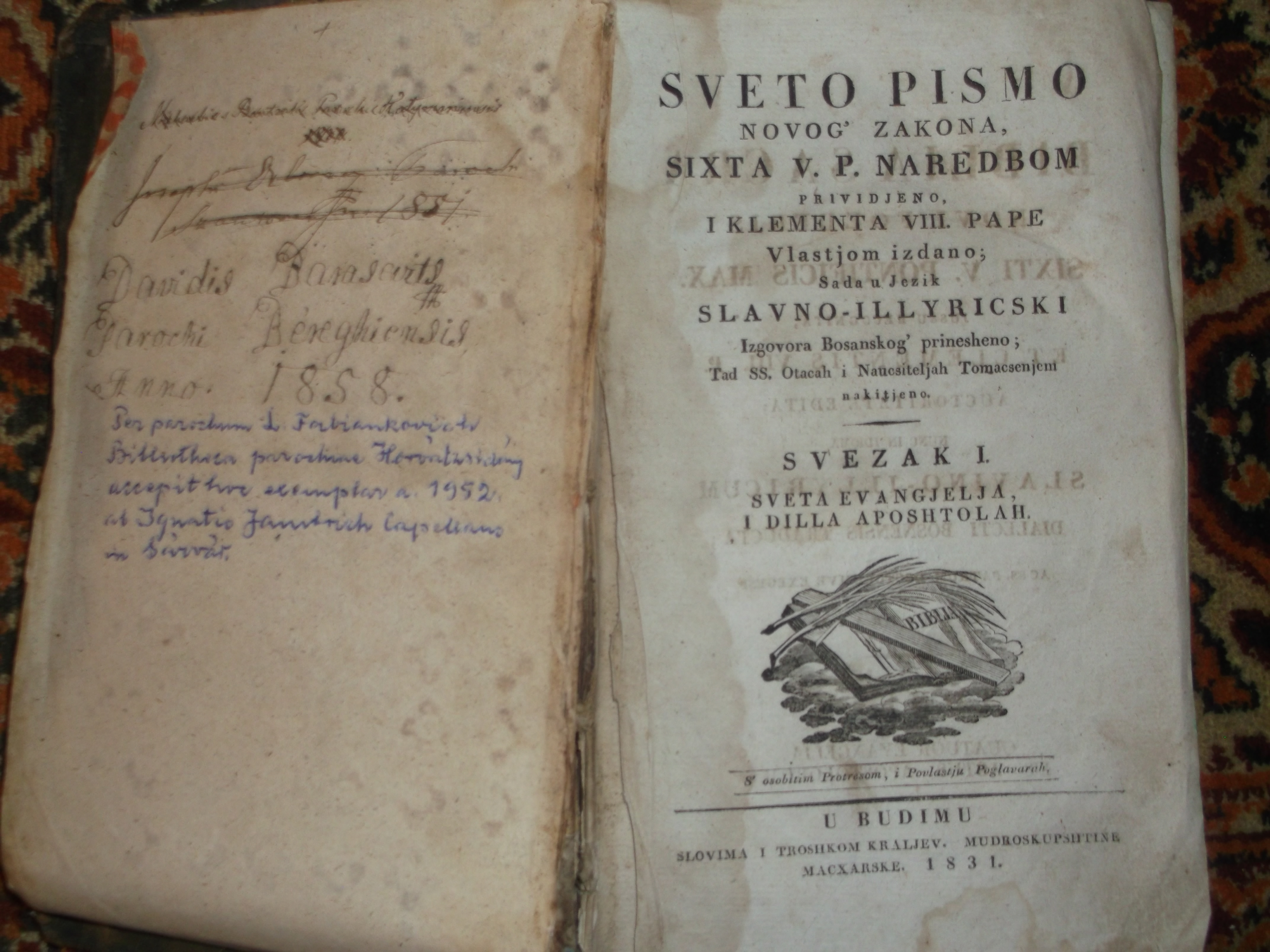 Bible translation of Matija Petar Katančić (1750-1825) in Croatian language (in Bosnian dialect of Illyrian language) from 1831.